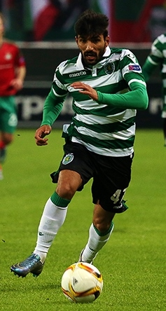 Ricardo Esgaio